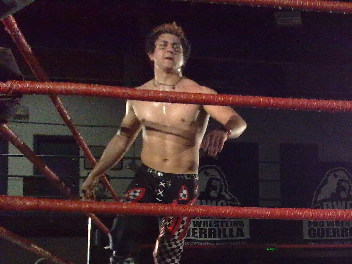 Professional wrestler TJ Perkins at Pro Wrestling Guerrilla's Battle of Los Angeles show on November 2, 2008.